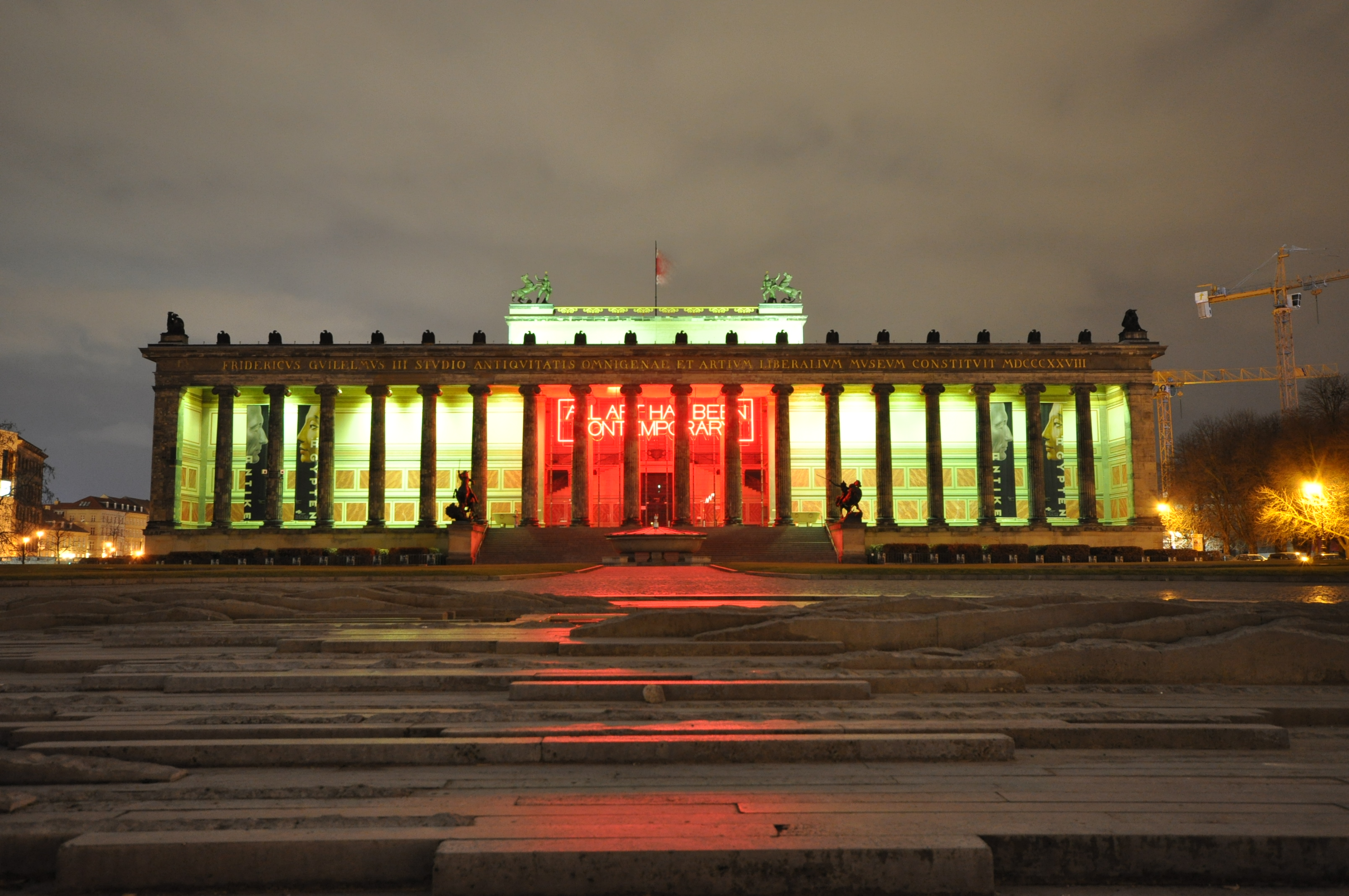 The Altes Museum (Old Museum), is one of several internationally renowned museums on Berlin's Museum Island in Berlin, Germany. Since restoration work in 1966, it houses the antique collection (Antikensammlung) of the Berlin State Museums. The museum was built between 1825 and 1828 by the architect Karl Friedrich Schinkel in the neoclassical style to house the Prussian Royal family's art collection. Until 1845, it was called the Royal Museum Neon text installation by Maurizio Nanucci, "All art has been contemporary".